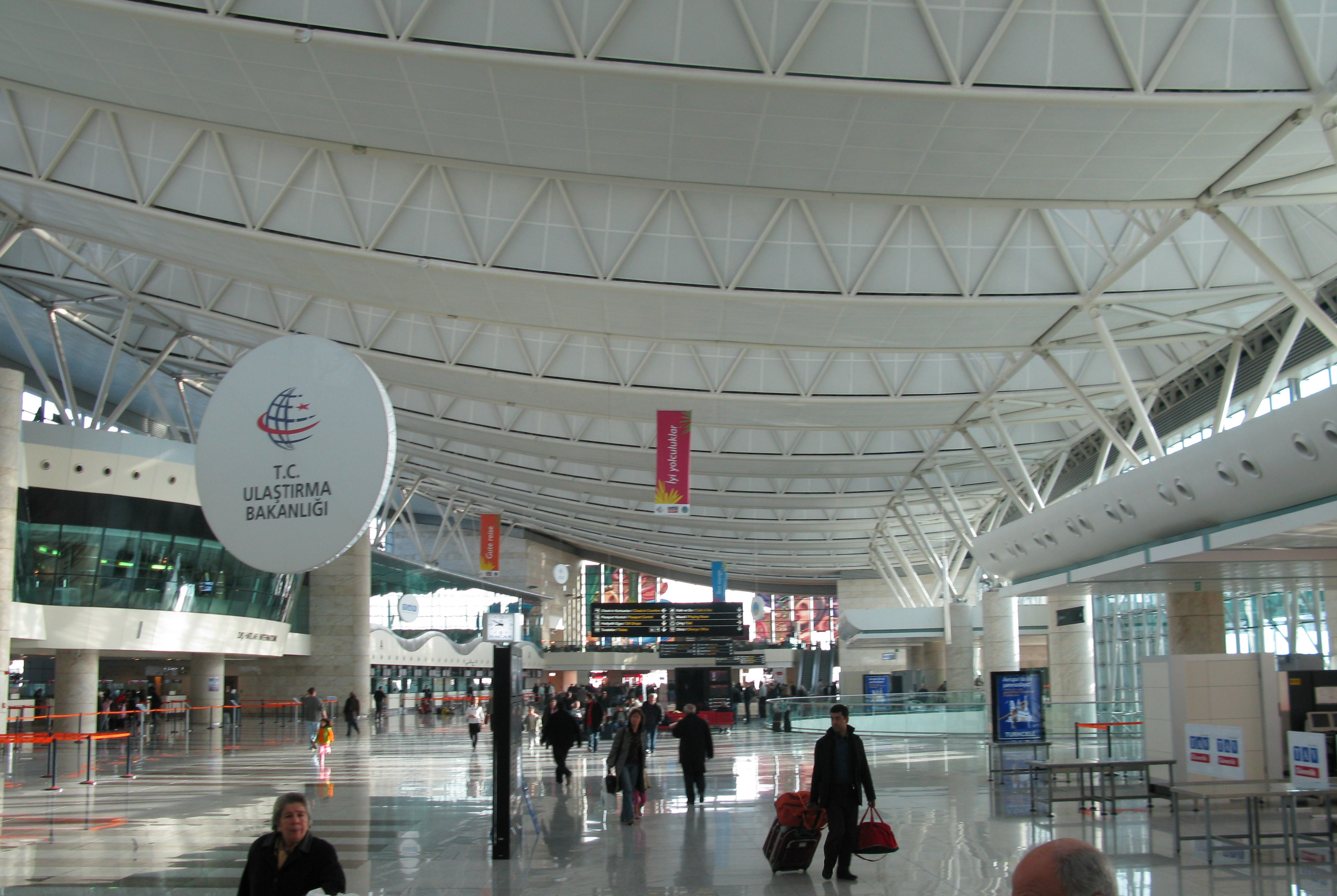 Departure area of Esenboğa Havalimanı, Ankara, Turkey